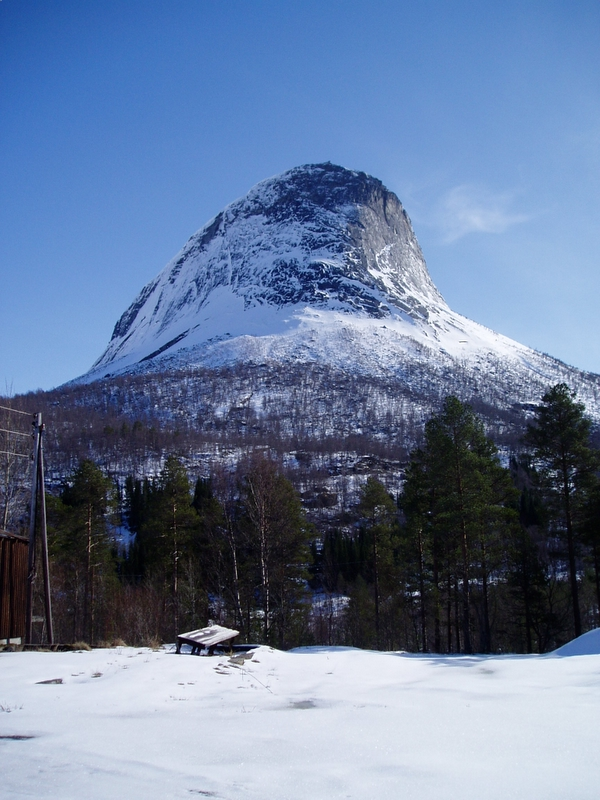 Kråkmotinden, Nordland, Norway